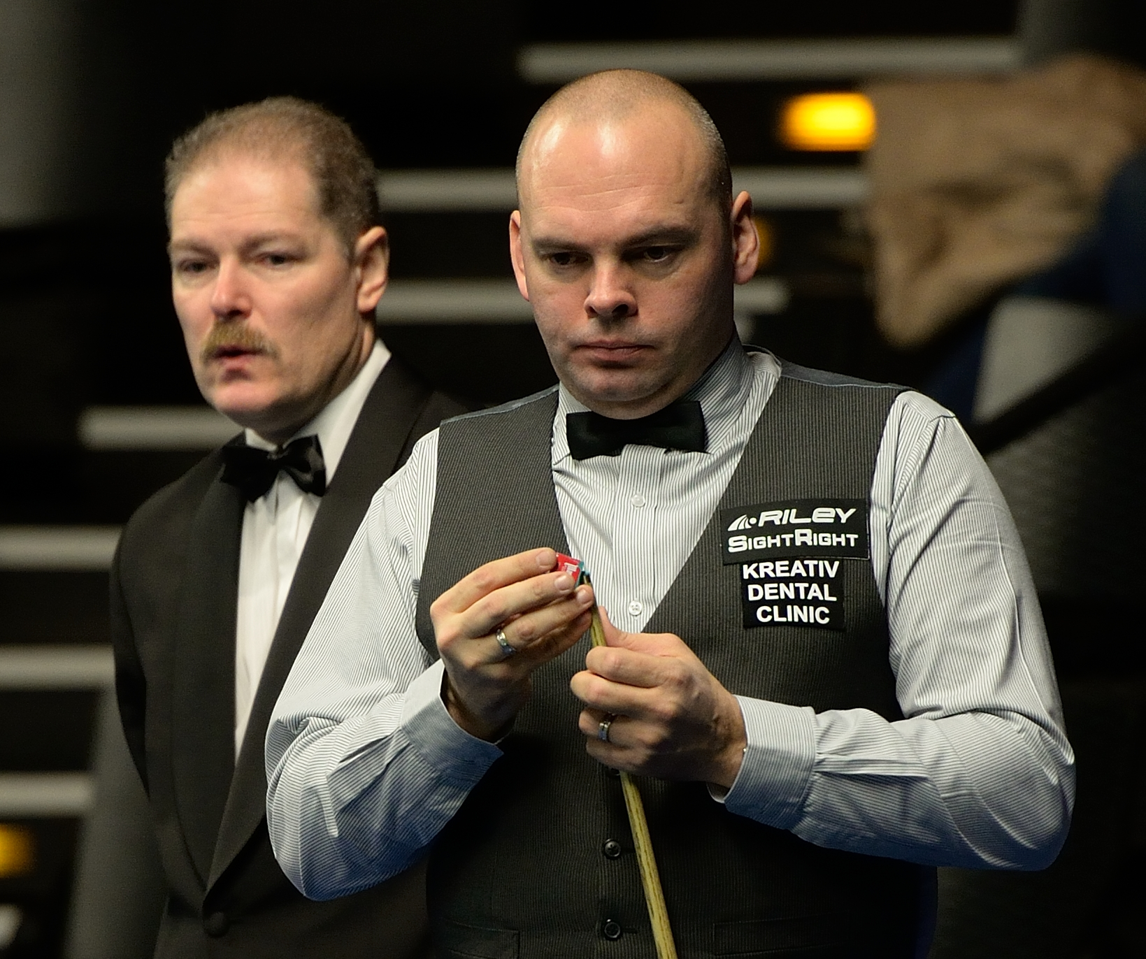 Picture taken in Berlin during the Snooker German Masters in 2015. Stuart Bingham, Jan Scheers.